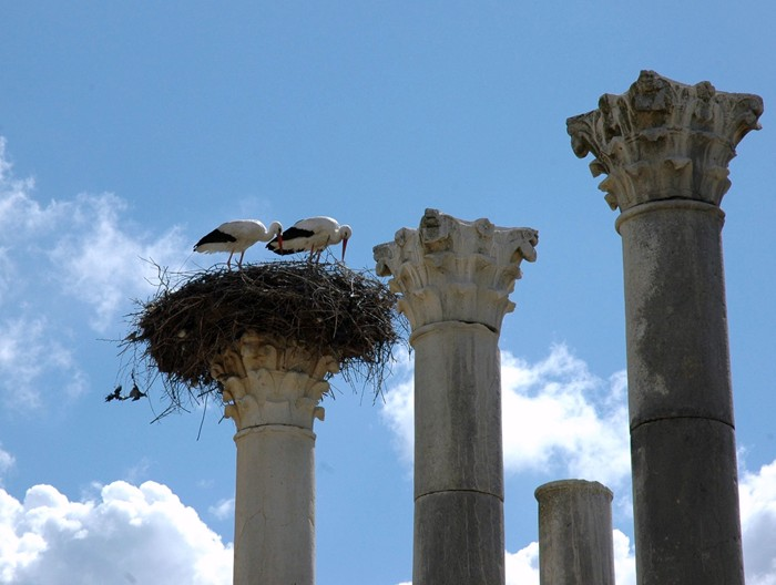 White Stork in Volubilis (Morocco)